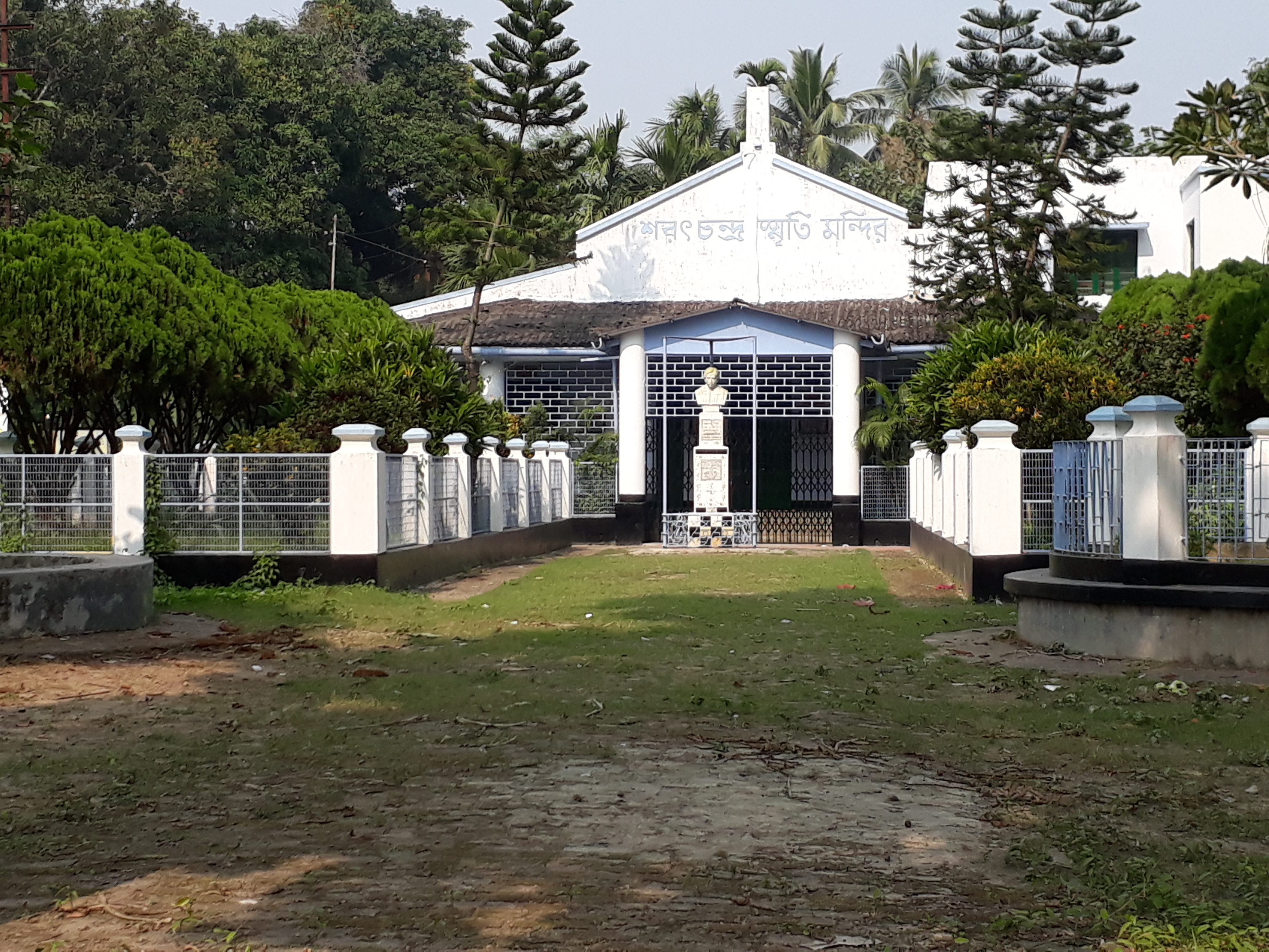 হুগলীর দেবাননন্দপুরে শরৎচন্দ্র এই স্থানে জন্মেছিলেন।